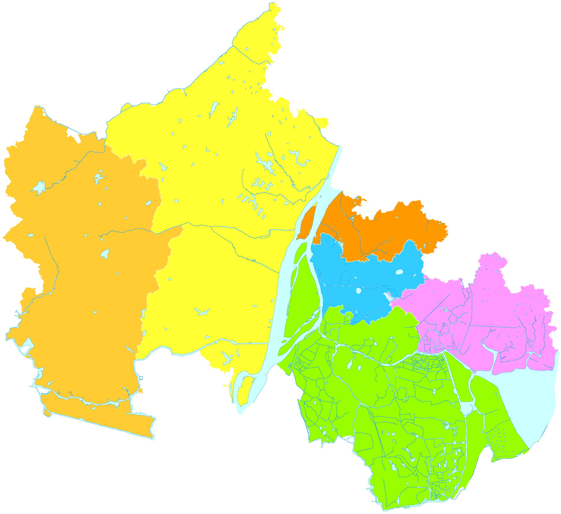 administrative divisions of Ma'anshan City, Anhui, China